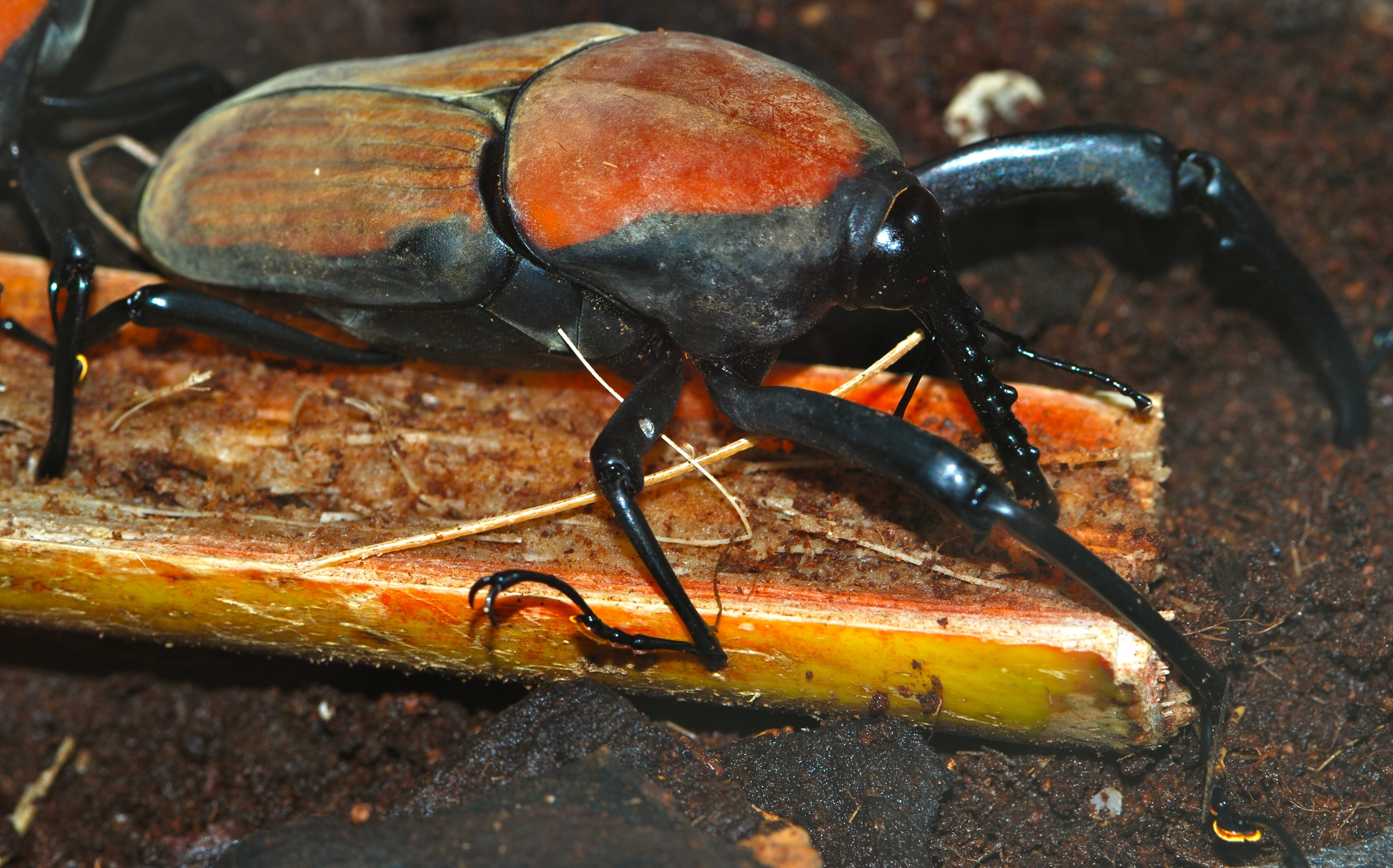 Butterfly Farm, Brinchang, Cameron Highlands, Pahang, MALAYSIA